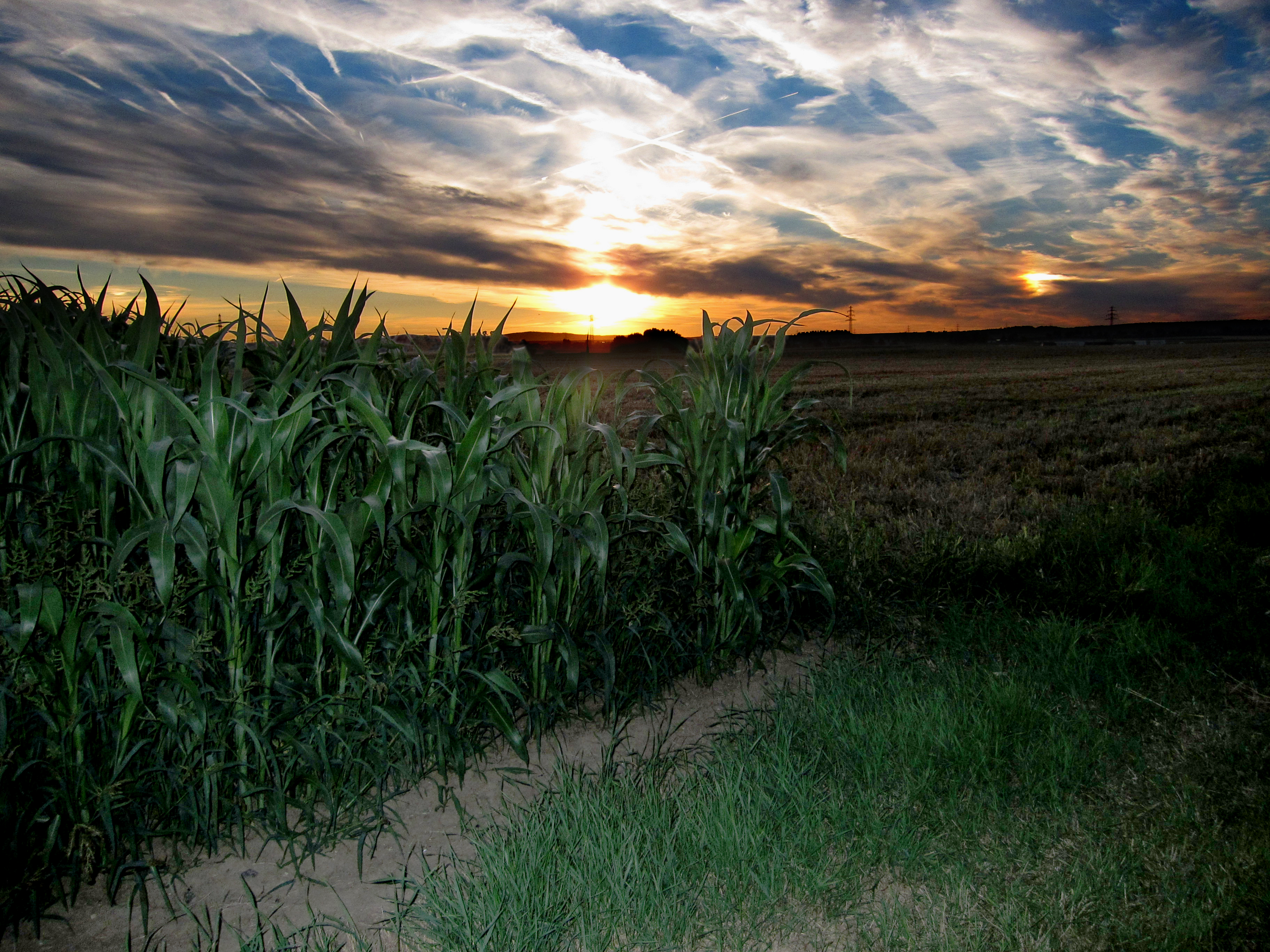 Sun with Sun dogs, Halo - Echzell / Hesse / Germany - August 12, 2012